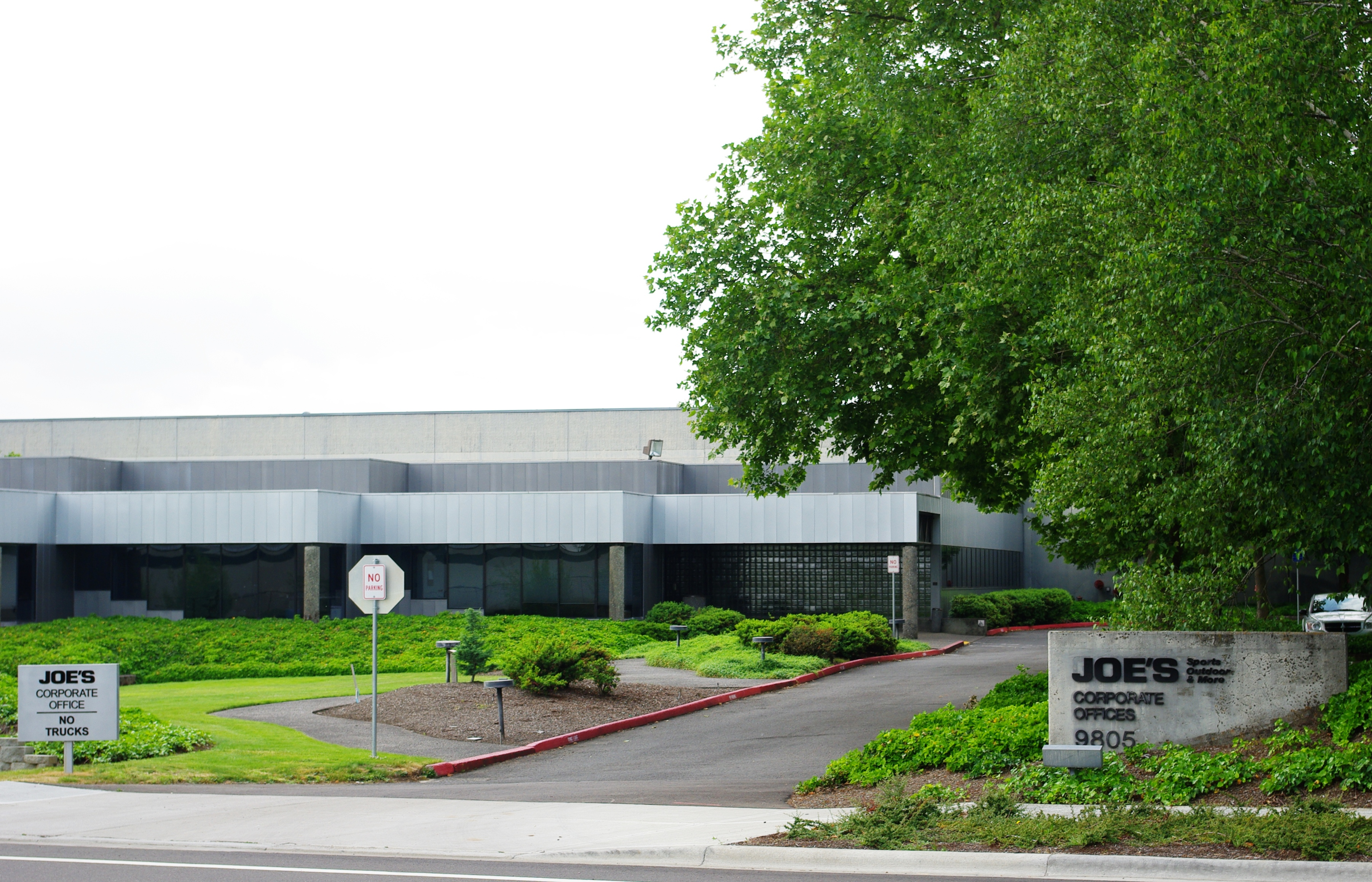 Joe's company headquarters in Wilsonville, Oregon, USA. Company now defunct